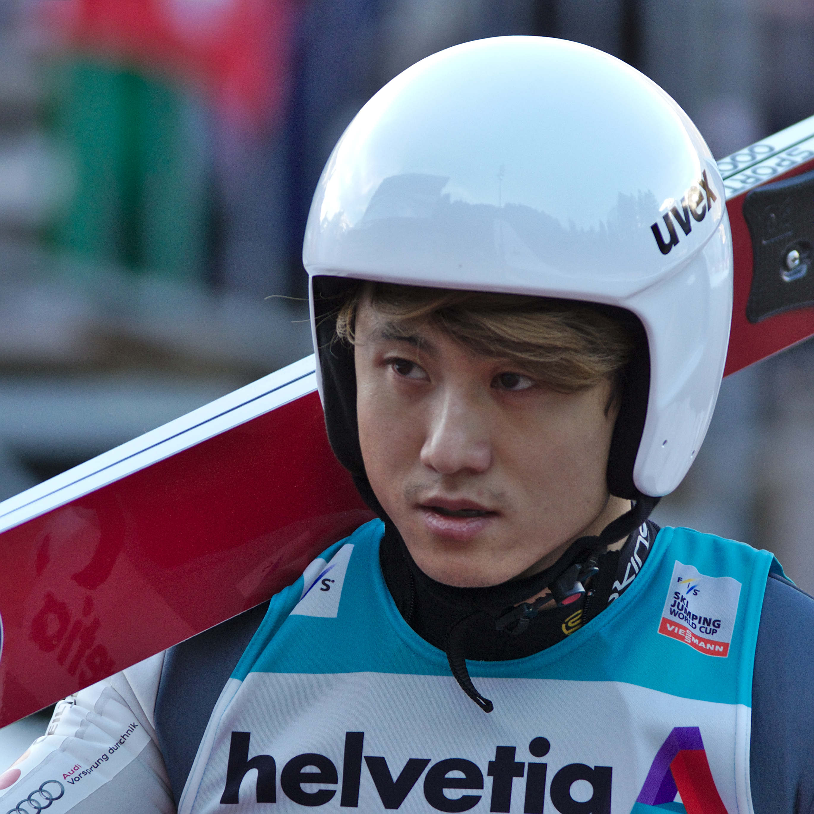 FIS Ski Jumping World Cup 2014 - Engelberg - 20141221 - Seou Choi